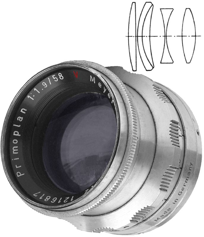 The Primoplan is a camera objective by German optics manufacturer Hugo Meyer, Goerlitz. It is a complex Triplet-type lens. This variant has a maximum aperture of 1:1.9 at a focal length of 58 mm.